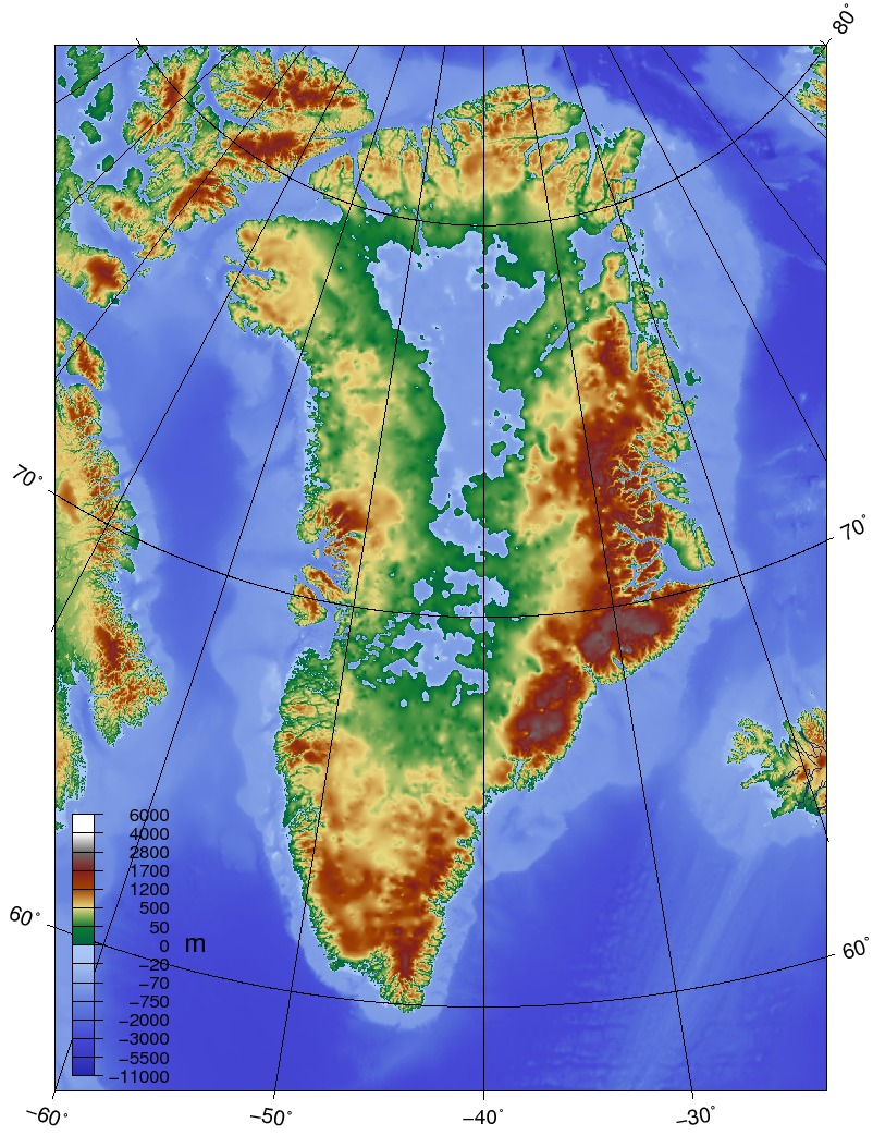 Topographic map of Greenland bedrock, in effect showing the topography without the extant ice sheet. Created using ETOPO1 Global Relief Model bedrock version from [1].